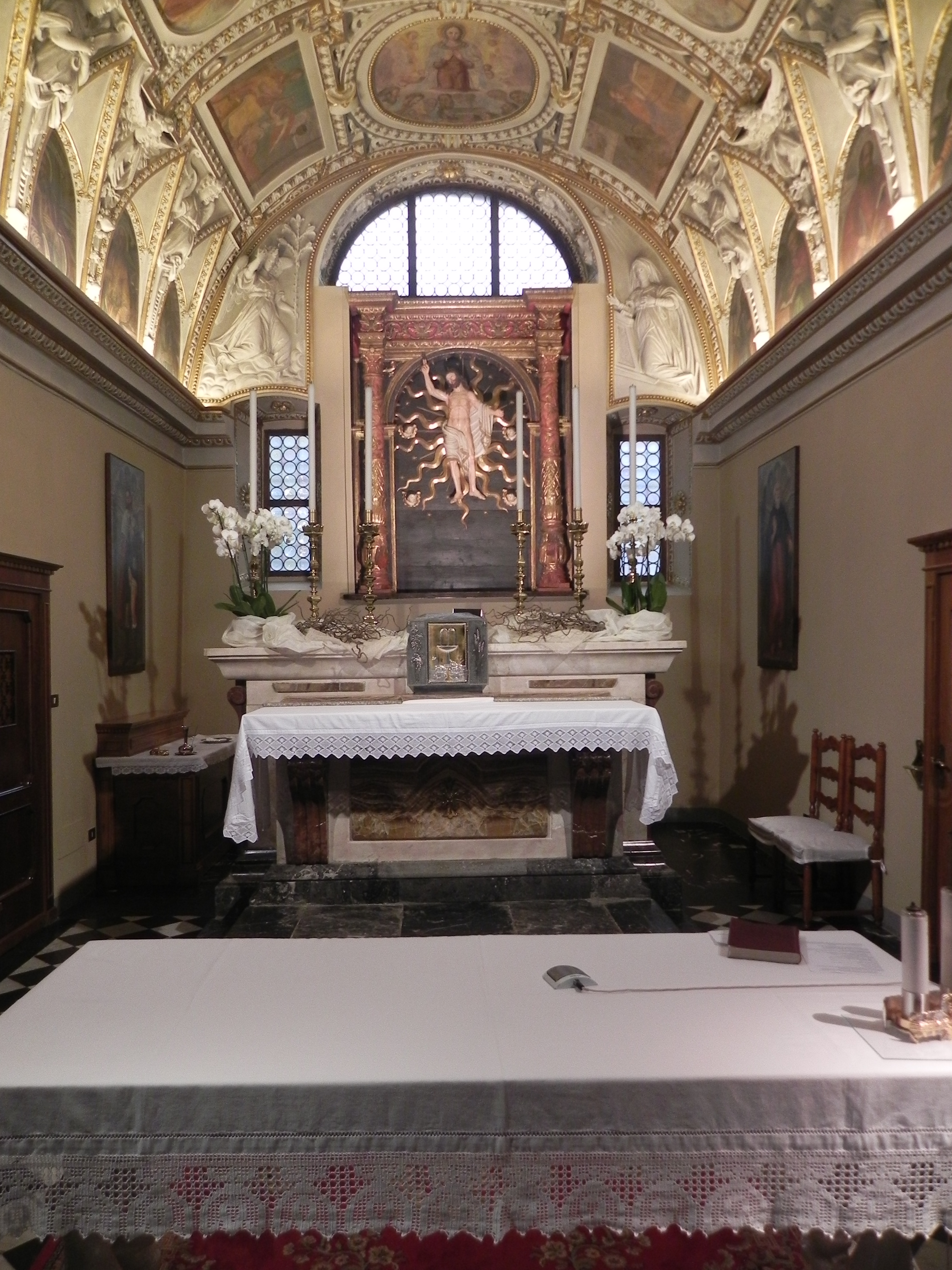 Church of Santa Maria Nascente - Inside view Gandellino (Gromo San Marino - BG) ITALY